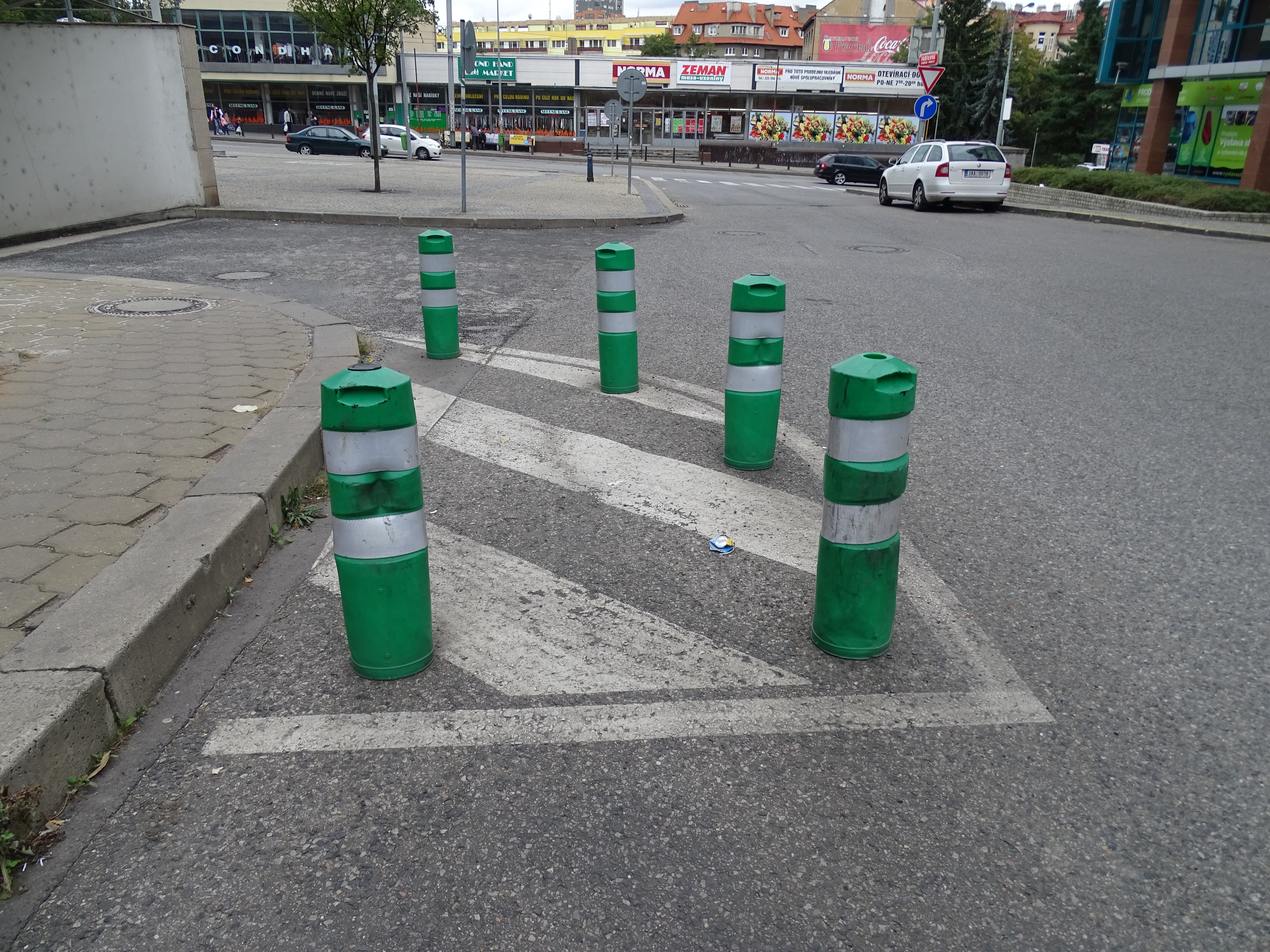 Prague-Vysočany, Czechia. Paříkova street.